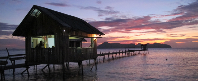 Sunset behind the TRACC classroom on Pom Pom Island, Near Semporna, Sabah